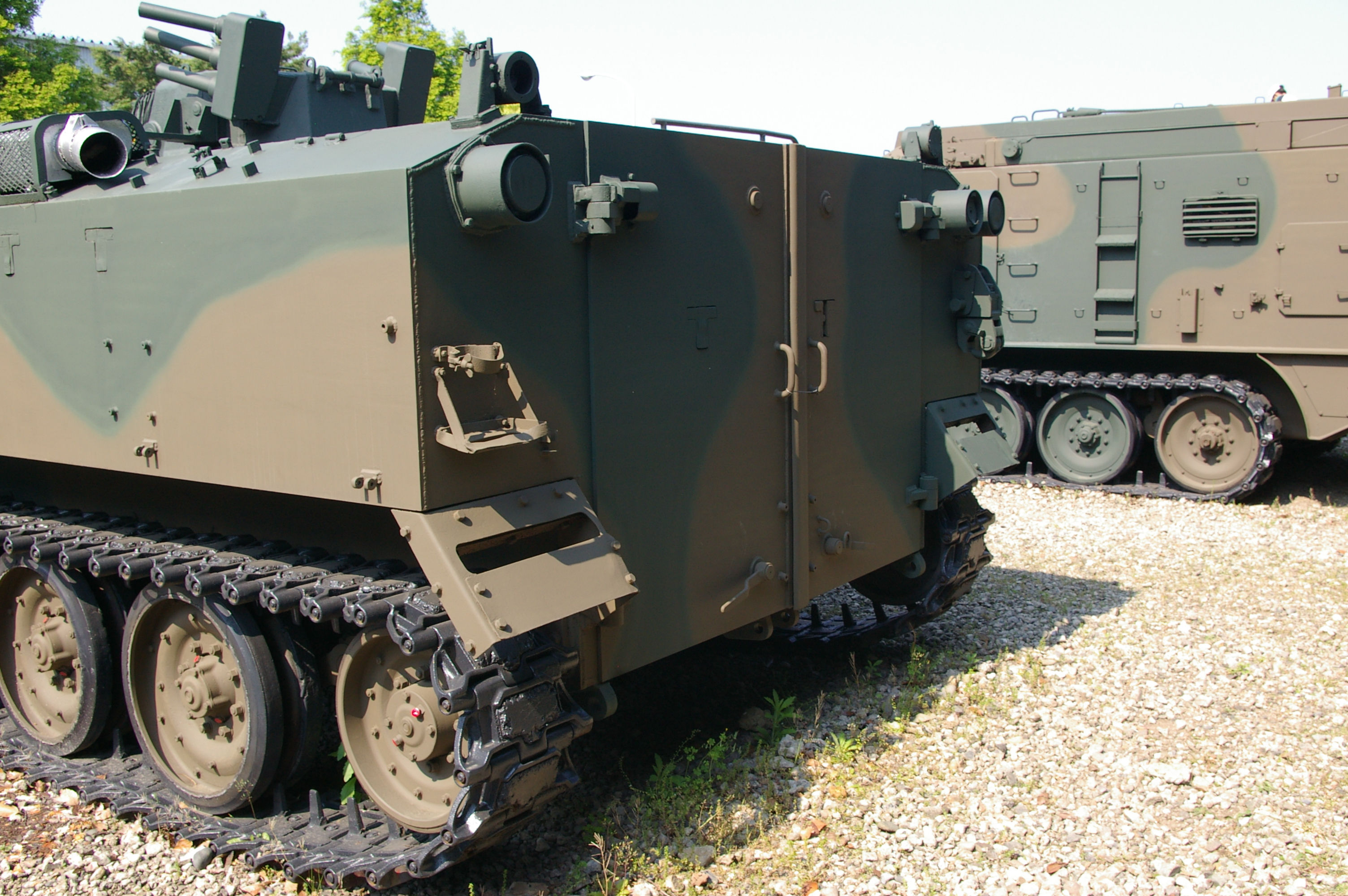 Taken by los688,18-May-2008,JGSDF Camp Kasumigaura.PD-self.JGSDF Type73 APC.